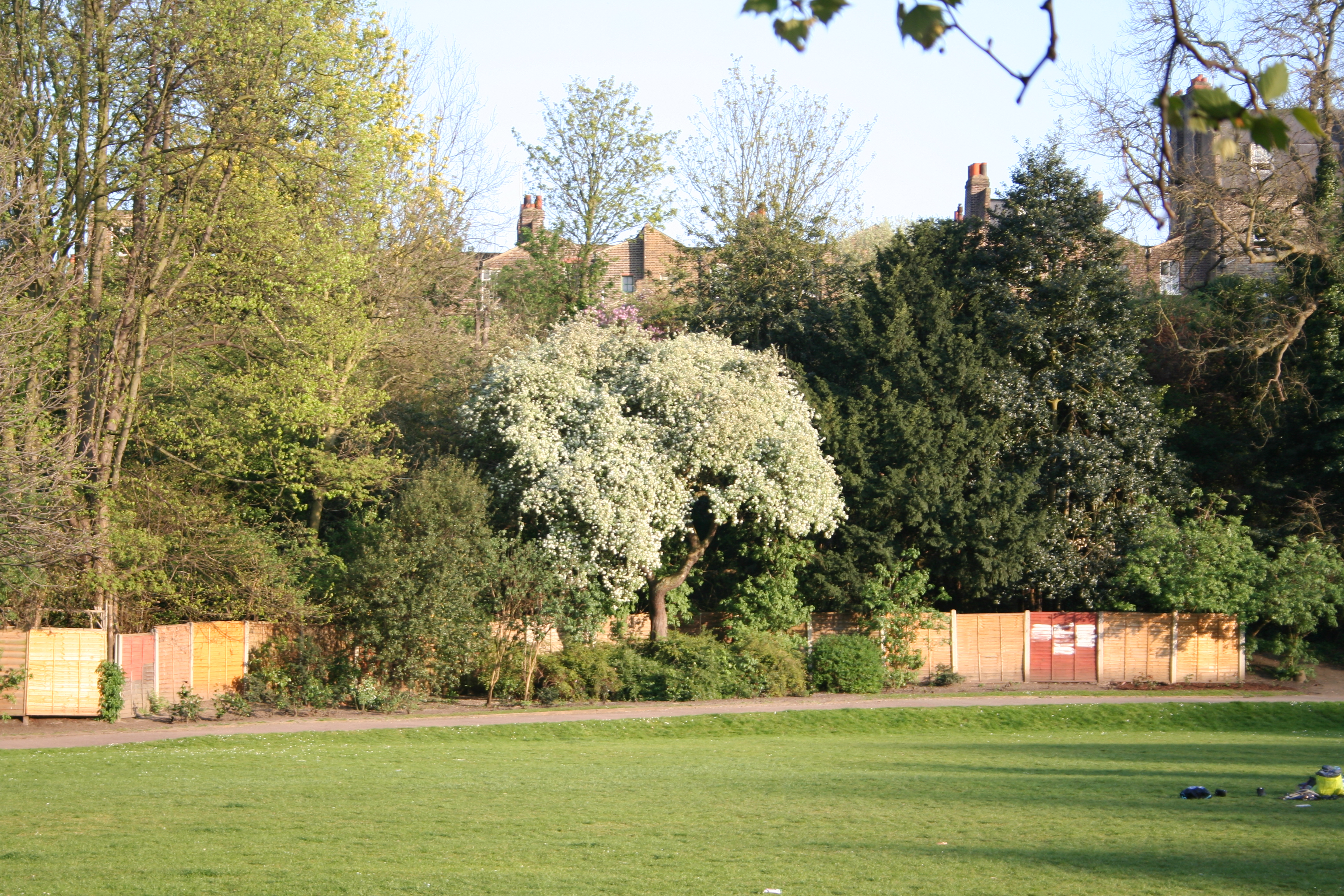 Summary: Maryon Park, Charlton, South East London Author: Jon's pics